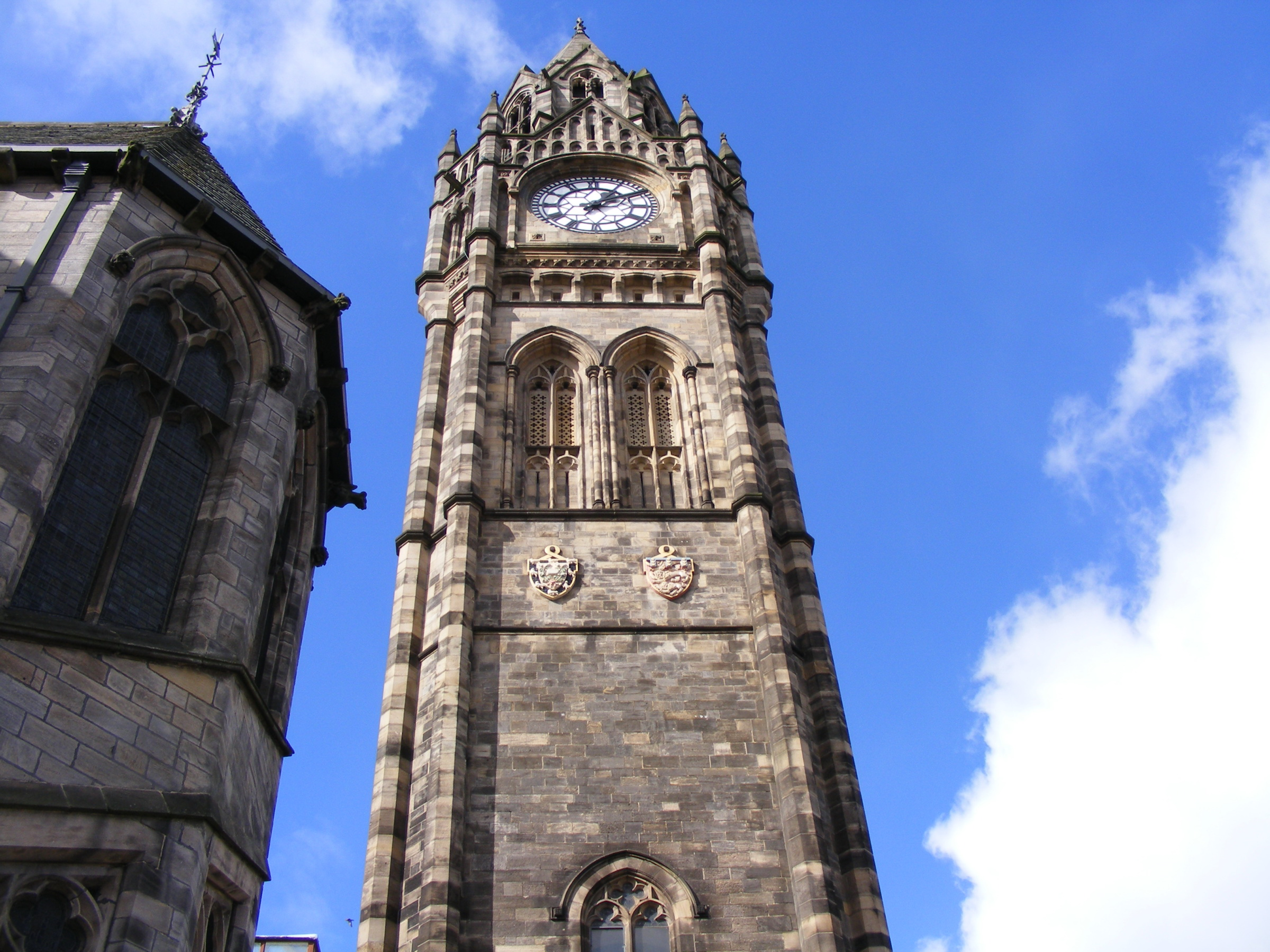 The clock tower of Rochdale Town Hall, Rochdale, Greater Manchester, England.